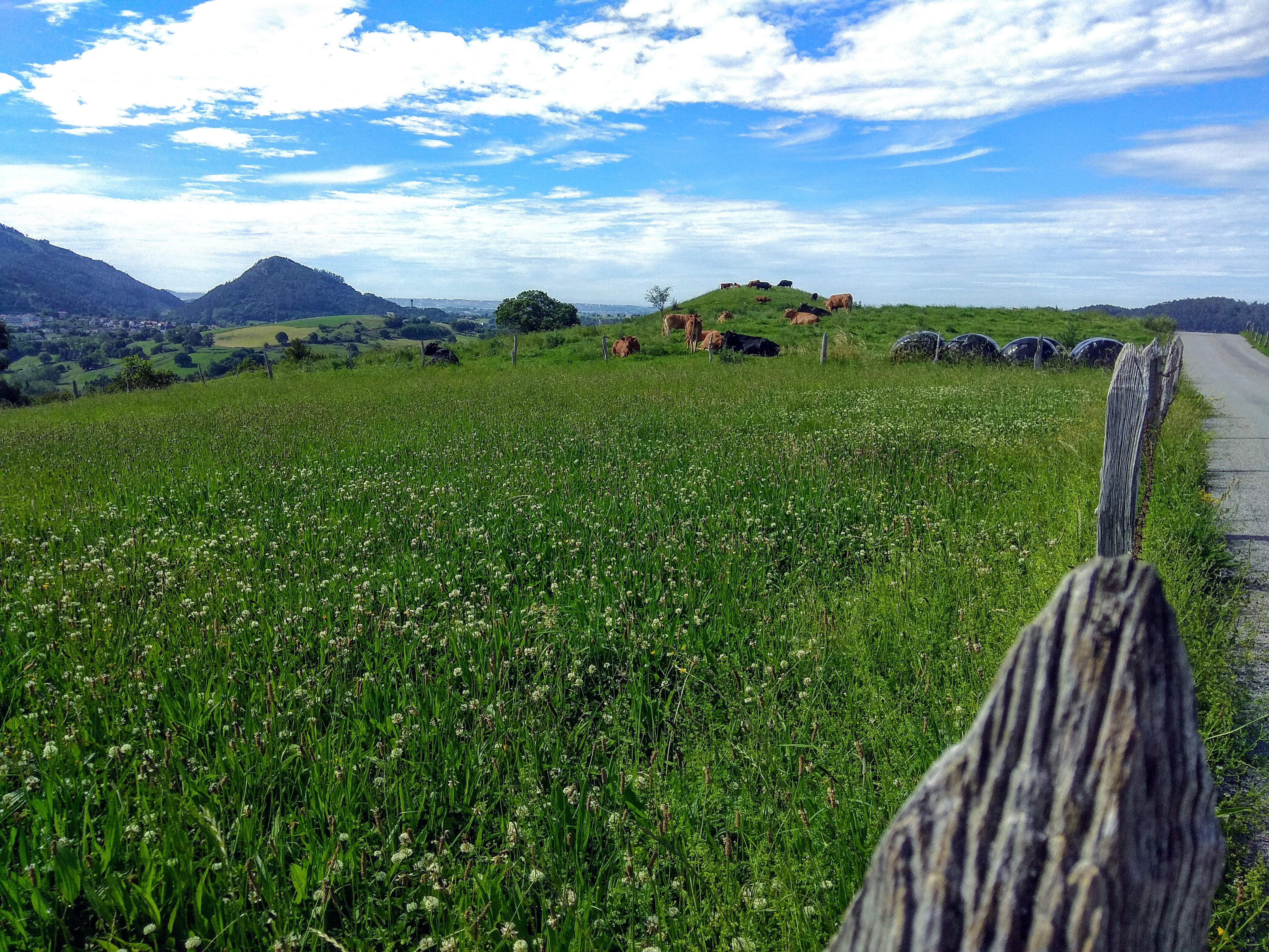 Grasslands in Sierra Hermosa (Medio Cudeyo, Cantabria)